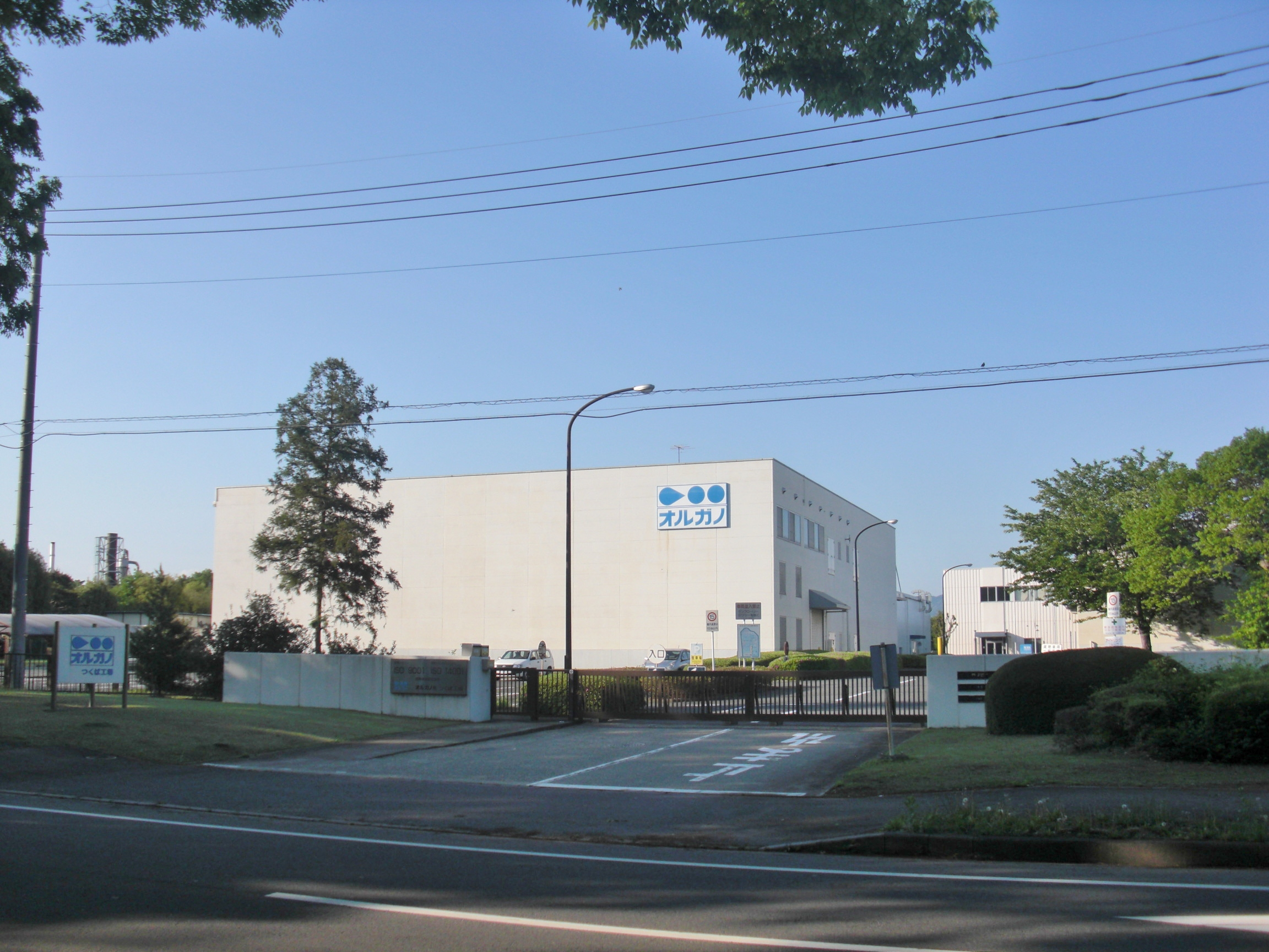 This factory is in Tsukuba, Ibaraki, Japan.